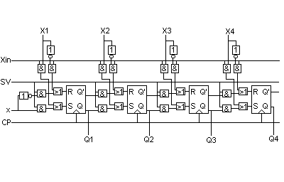 Shiftregister with parallel load